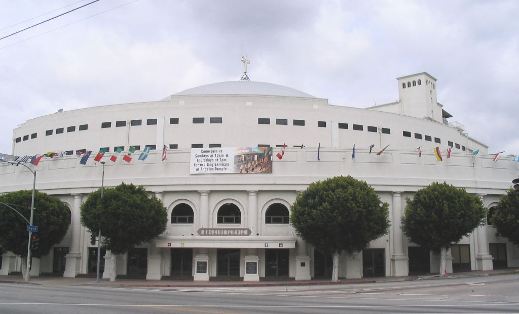 Angelus Temple, Church of the Foursquare Gospel, built by Aimee Semple McPherson and dedicated January 1, 1923. The temple is opposite Echo Park, near downtown Los Angeles, California. Photographed 2005.